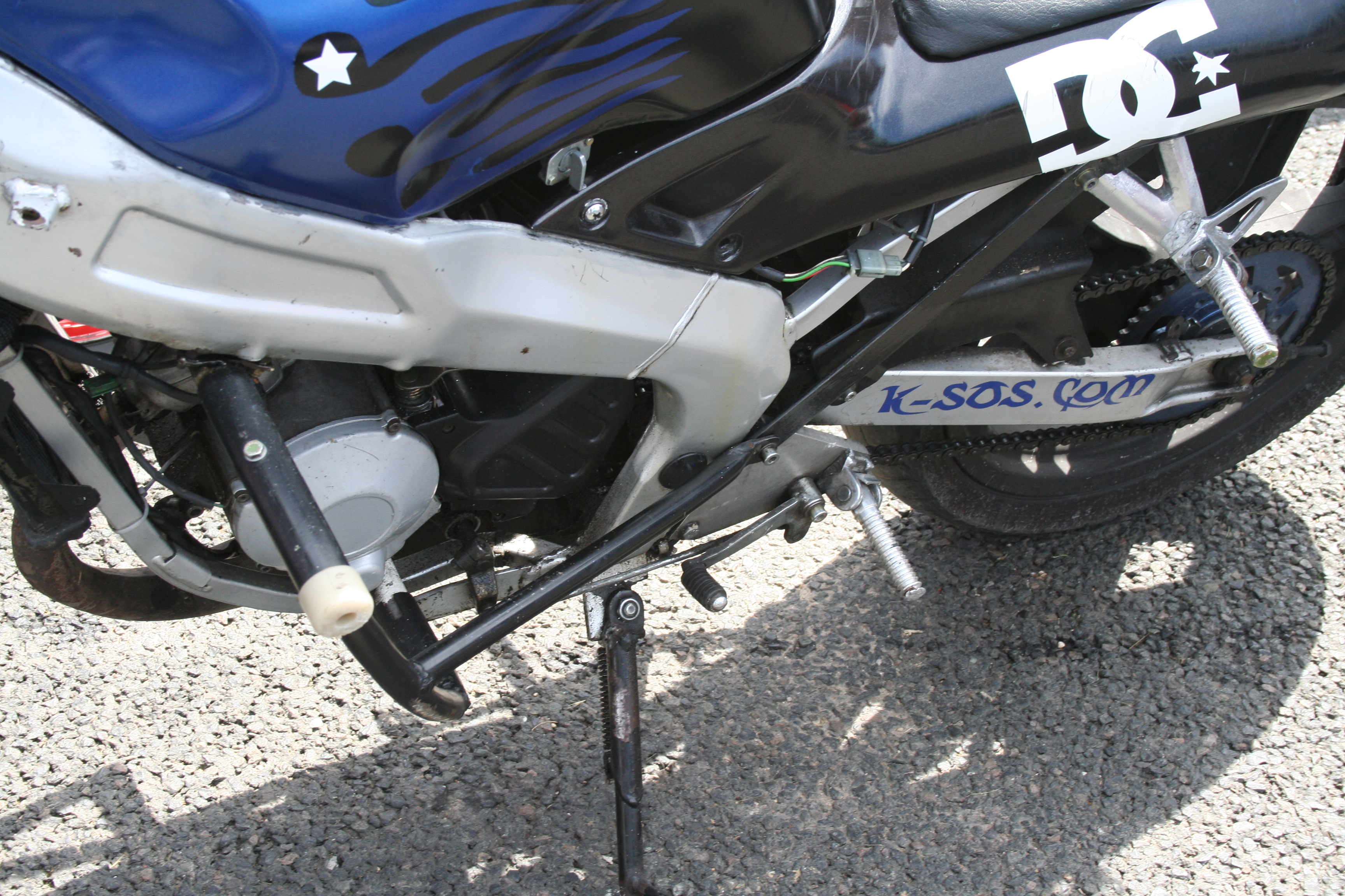 Crash cage, used to protect the engine on a stunt bike.